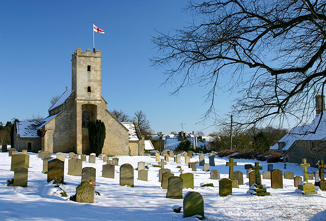 St Mary's parish church, Swinbrook, Oxfordshire, seen from the west in sun and snow